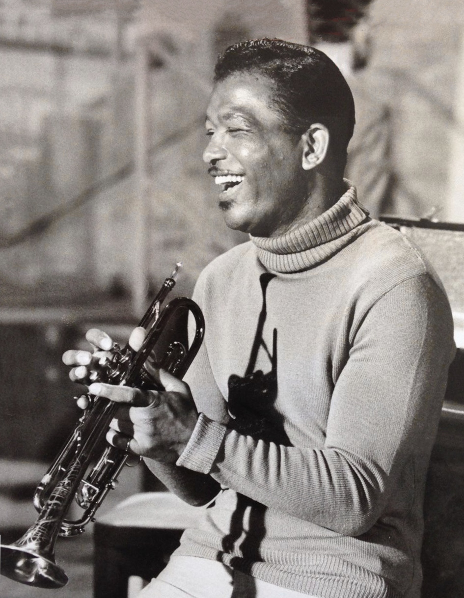 ORIGINAL 1969 SUGAR RAY ROBINSON ABC TV JAZZ PROGRAM BOXING WIRE PHOTO 8x10